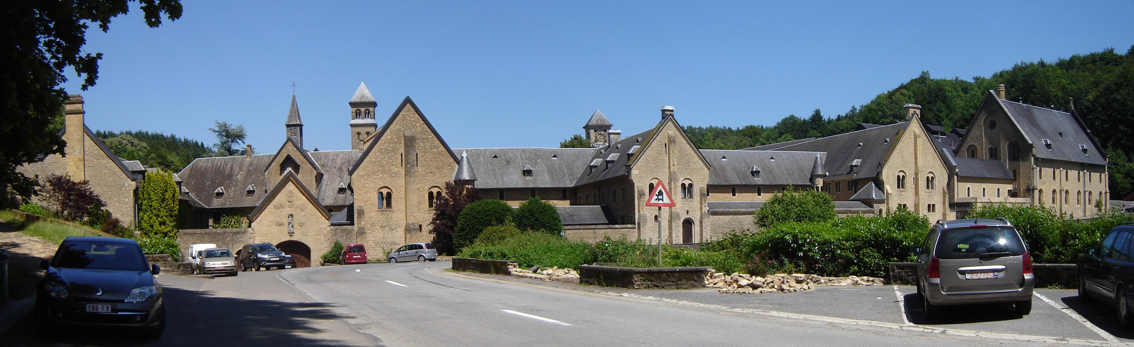 Abbaye d'Orval (Orval Abbey), outside. Seen from the south. Villers-devant-Orval, Florenville, Luxembourg, Belgium.